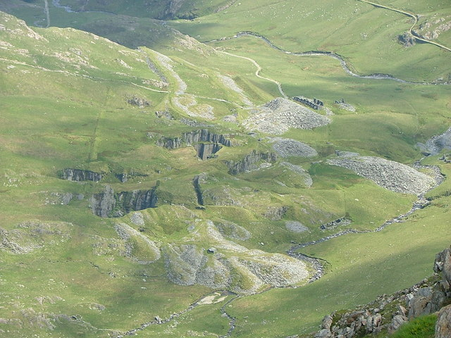 Hafod Y Llan Quarry from Snowdon South Ridge